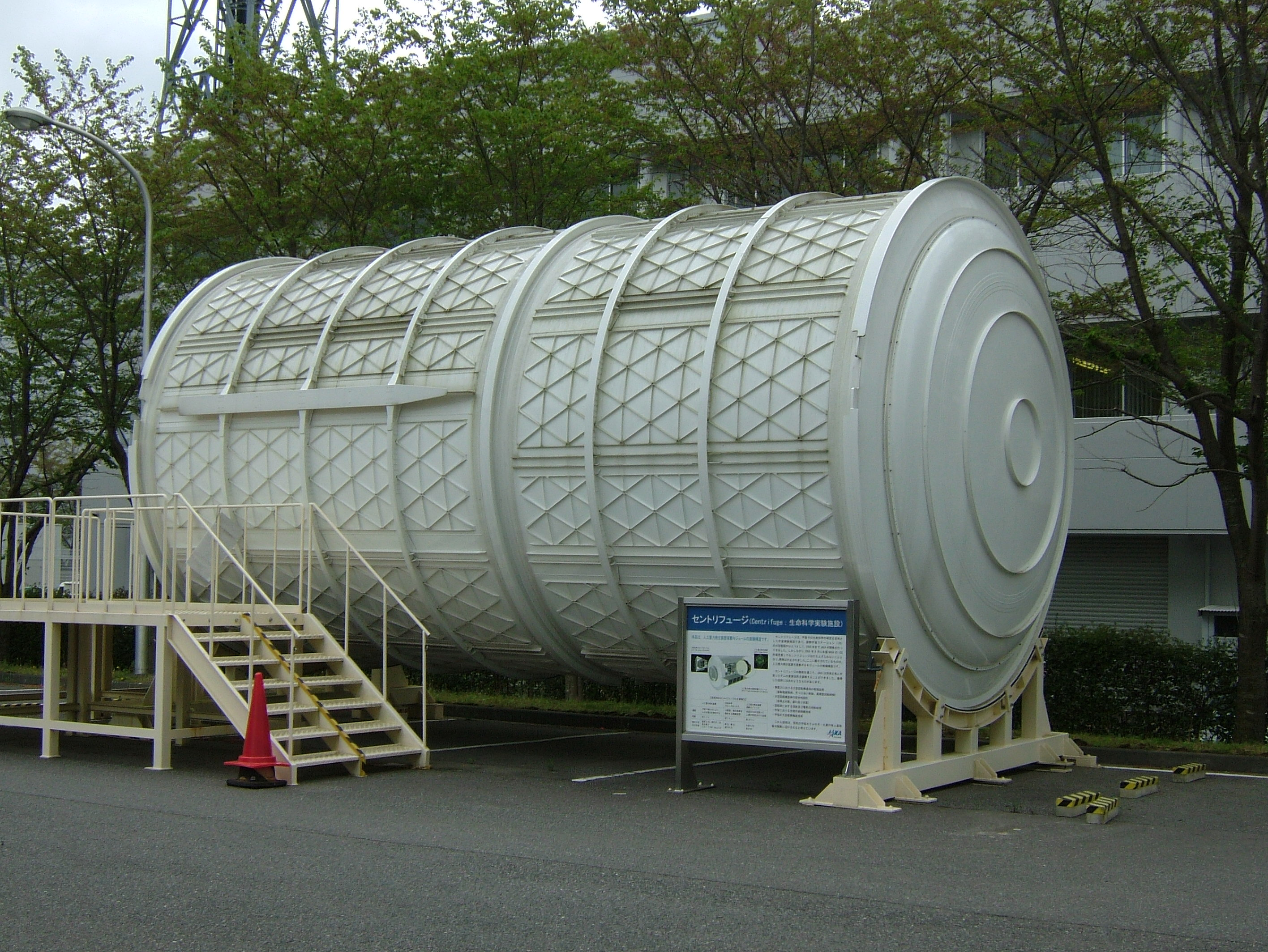 Centrifuge Accommodations Module of ISS, which was canceled its flights. Displayed at Tsukuba Space Center, Tsukuba, Japan.